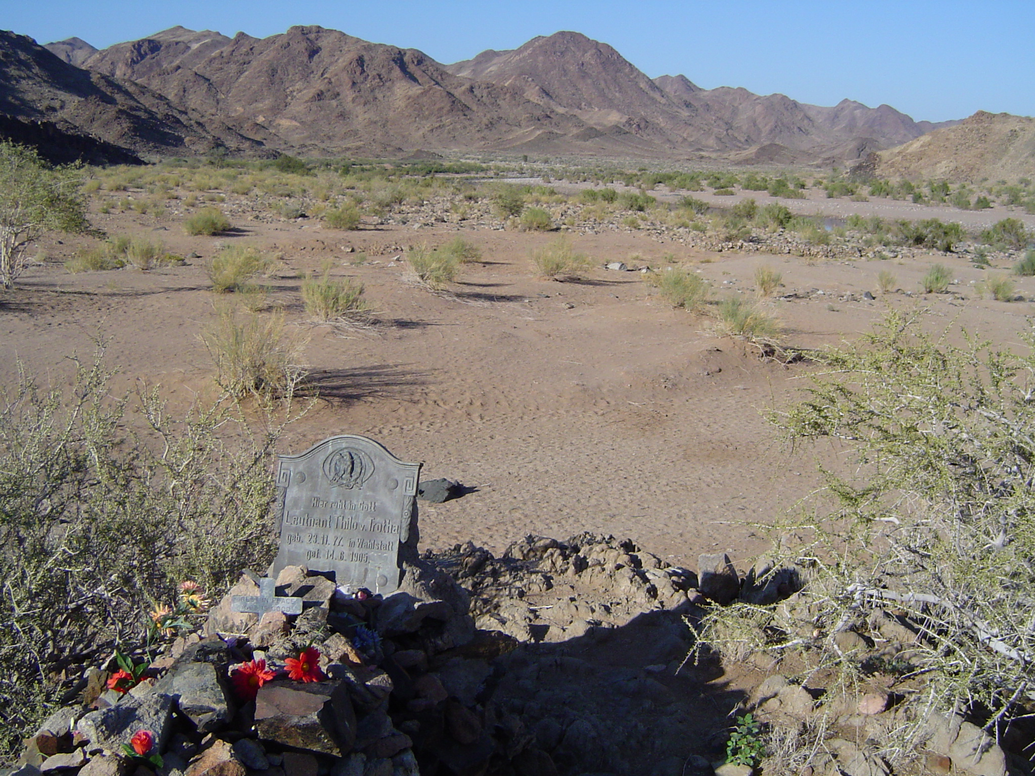 Grave of German soldier in Fish River Canyon